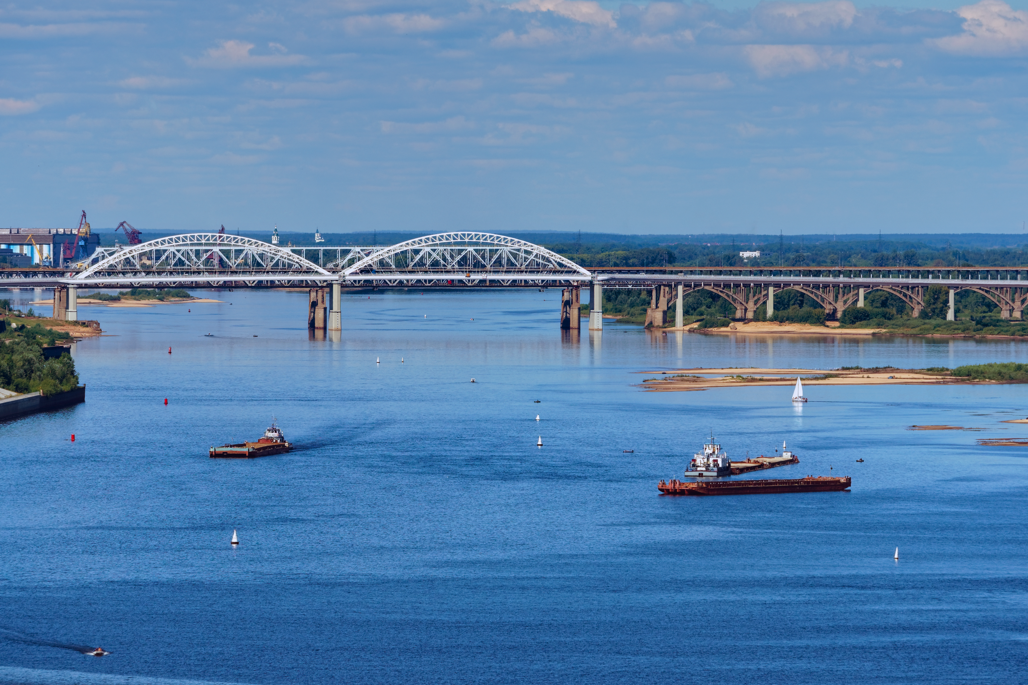 Nizhny Novgorod. Volga Bridge